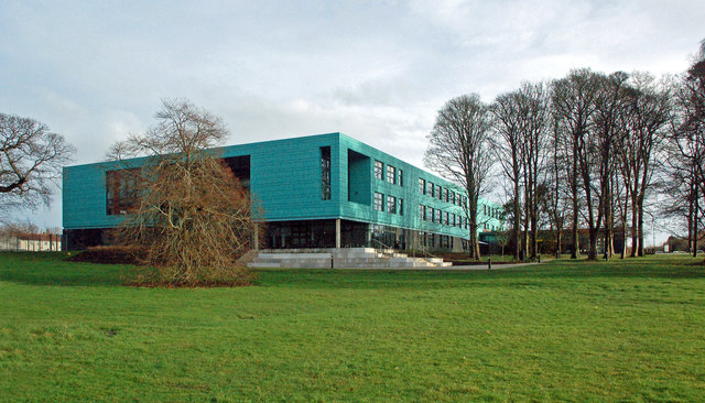 New Ayr Academy